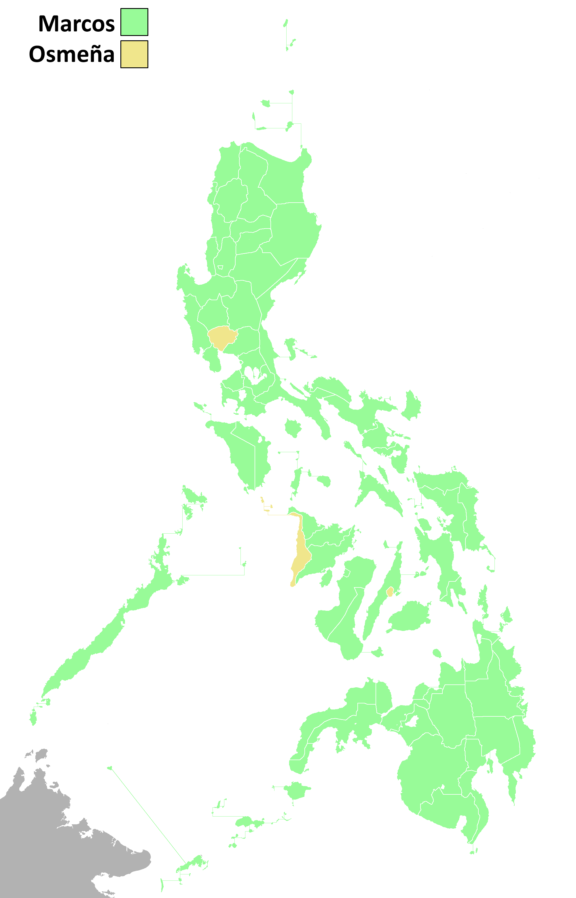 Result of the Philippine presidential election, 1969.